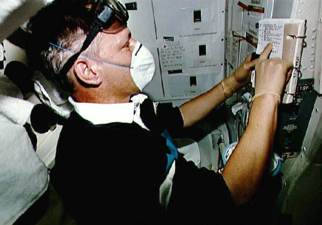 STS-46 European Space Agency (ESA) Mission Specialist (MS) Claude Nicollier, wearing goggles, face mask, and rubber gloves, reviews inflight maintenance (IFM) checklist procedures before starting waste collection system (WCS) fan separator repair. One of two fan separators used to transfer waste water from the waste management compartment (WMC) to the waste water tank has failed. The suspected accumulation of water in the separator was believed to have occurred during a test dumping of waste water at a lower than normal pressure to evaluate the performance of new nozzles. The WMC is located on the middeck of Atlantis, Orbiter Vehicle (OV) 104.